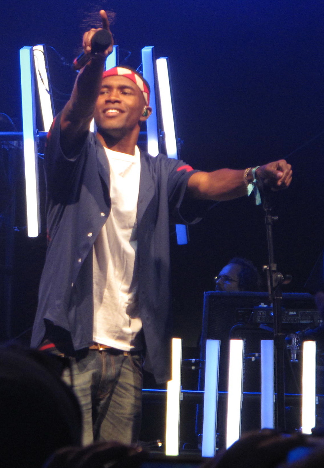 Frank Ocean holds out his microphone to the crowd while performing at Coachella 2012.